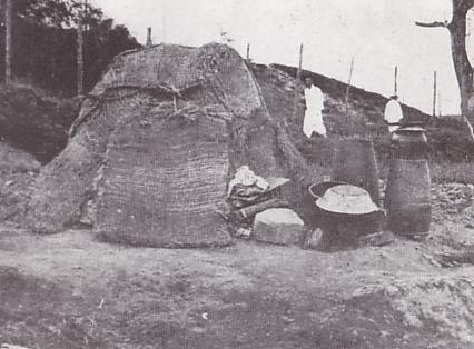 Old Korean Slum house